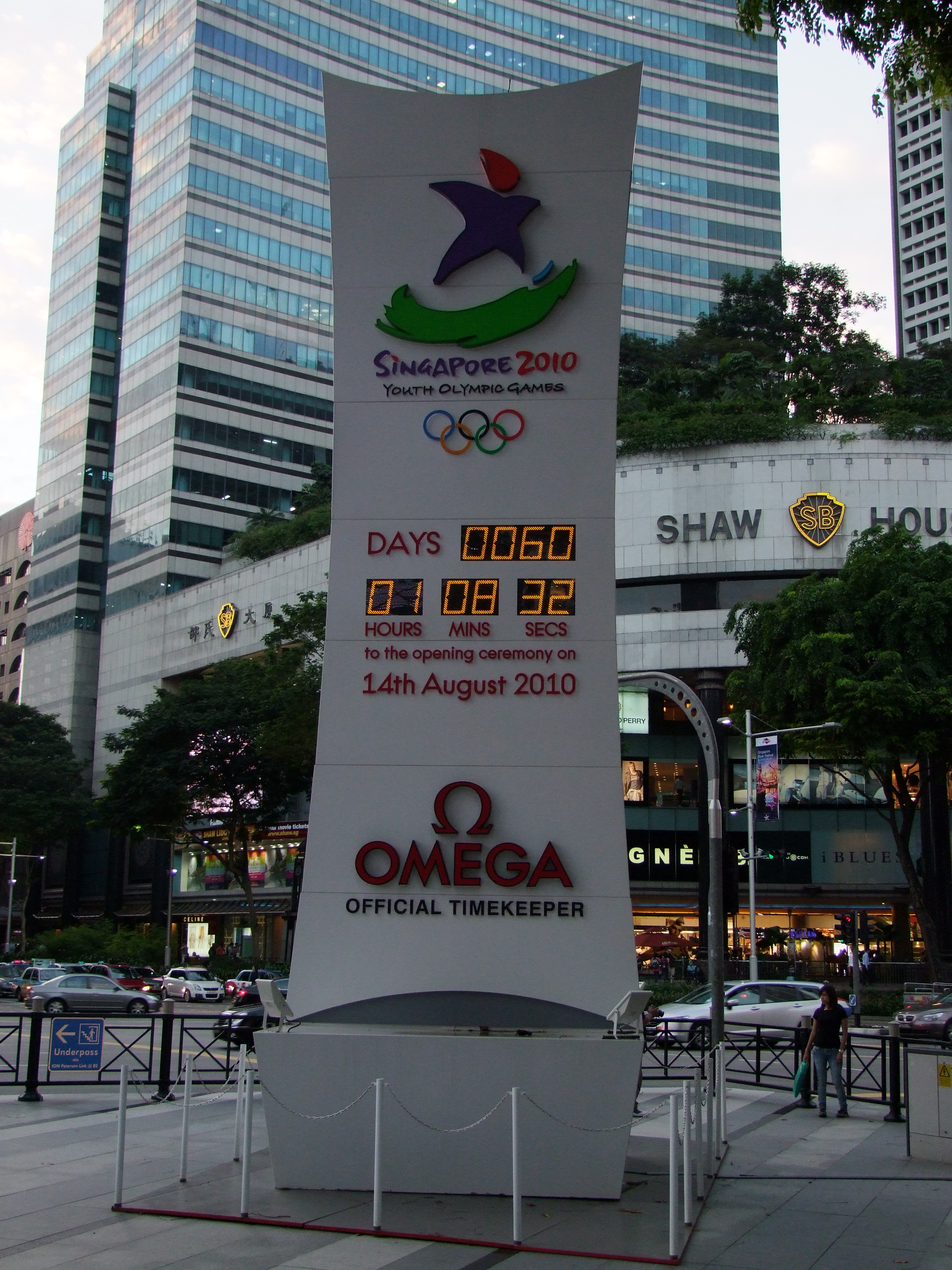 An Omega countdown clock for the 2010 Singapore Youth Olympics at the corner of Orchard Road and Scotts Road in front of ION Orchard.